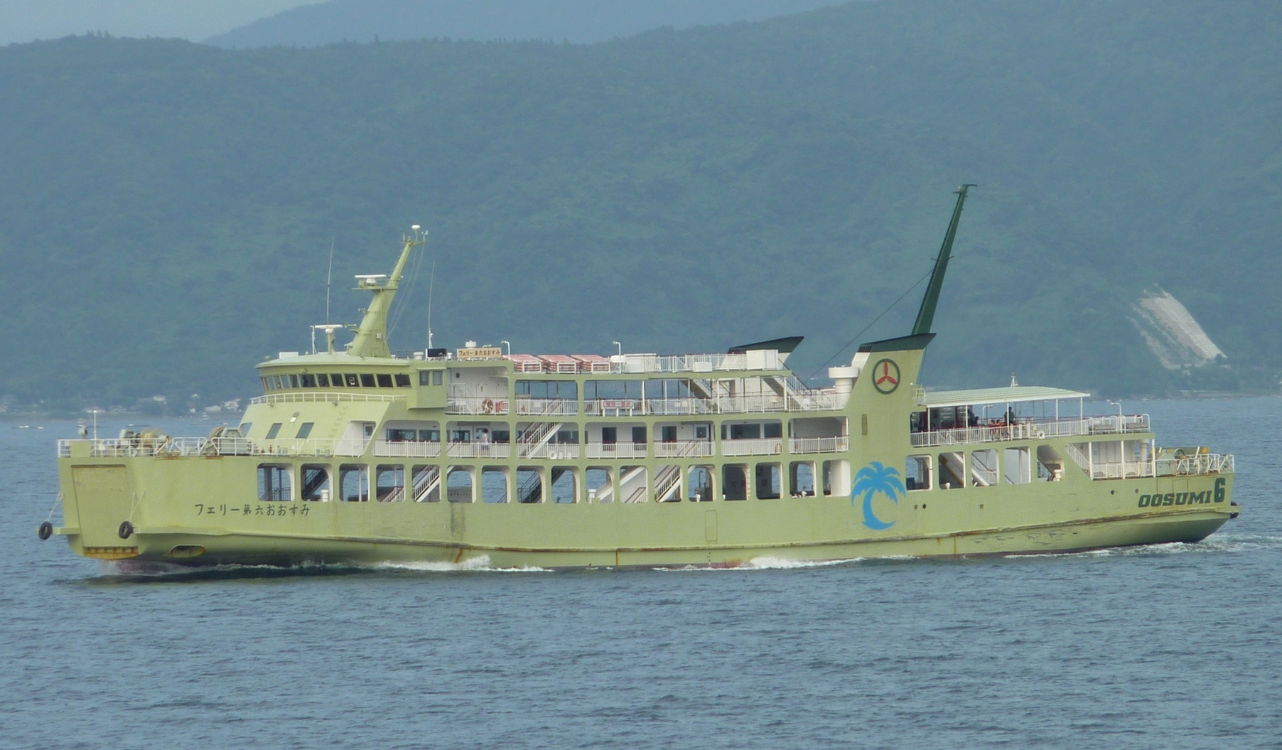 Kamoike - Tarumizu Ferry (Kagoshima Prefecture, Japan)